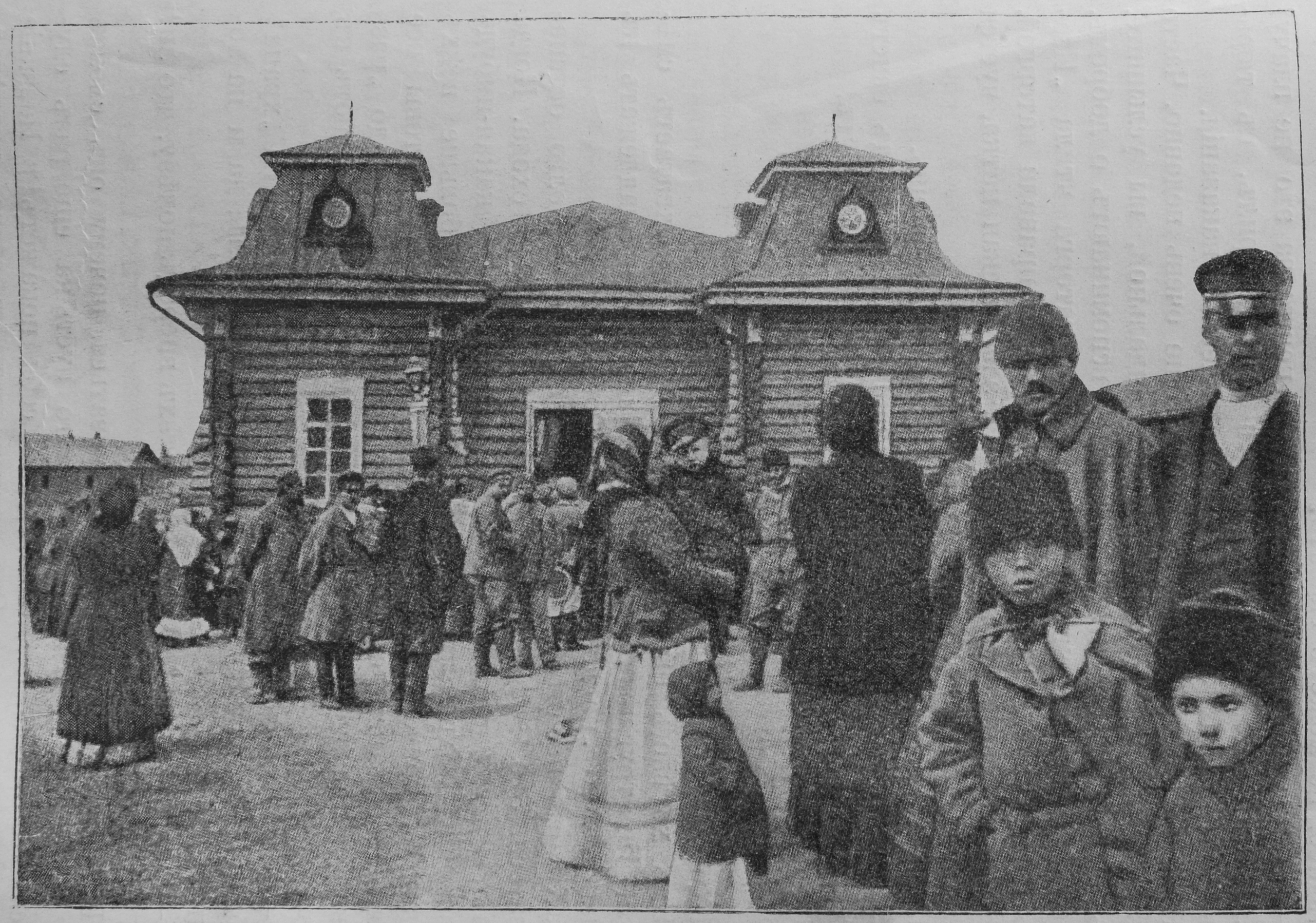 Settlers way of life. Giveaway of donated stuff from Russia in fire station in post Aleksandrovsky